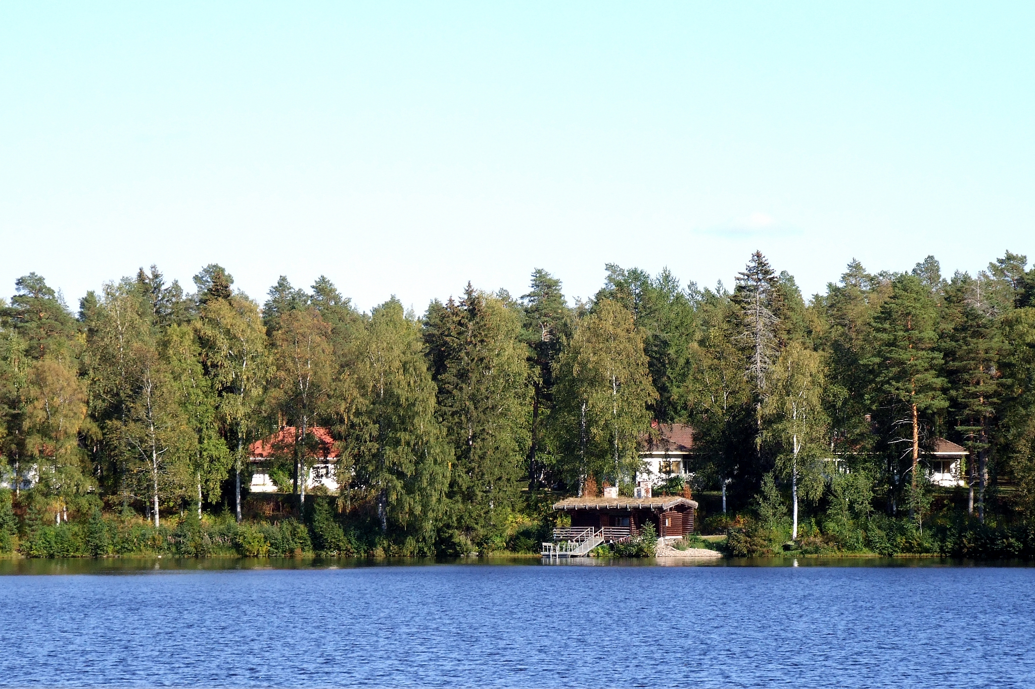 Leppiniemi neighborhood in the municipality of Muhos, Finland. The area and most of the houses were designed by architect Aarne Ervi in the 1950s.